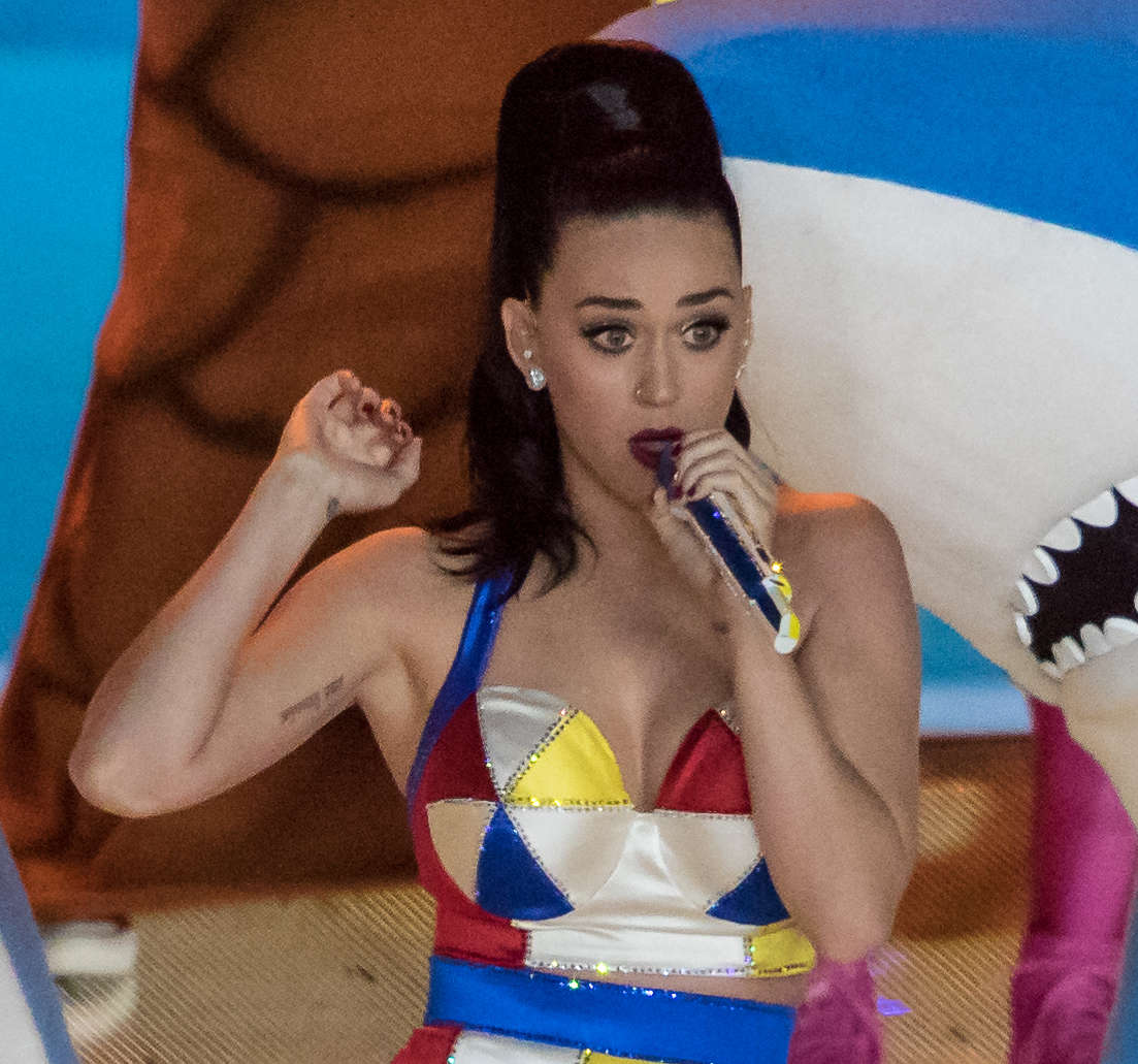 Katy Perry performing "Teenage Dream" at halftime of Super Bowl XLIX at University of Phoenix Stadium in Glendale, Ariz., on Feb. 1, 2015.